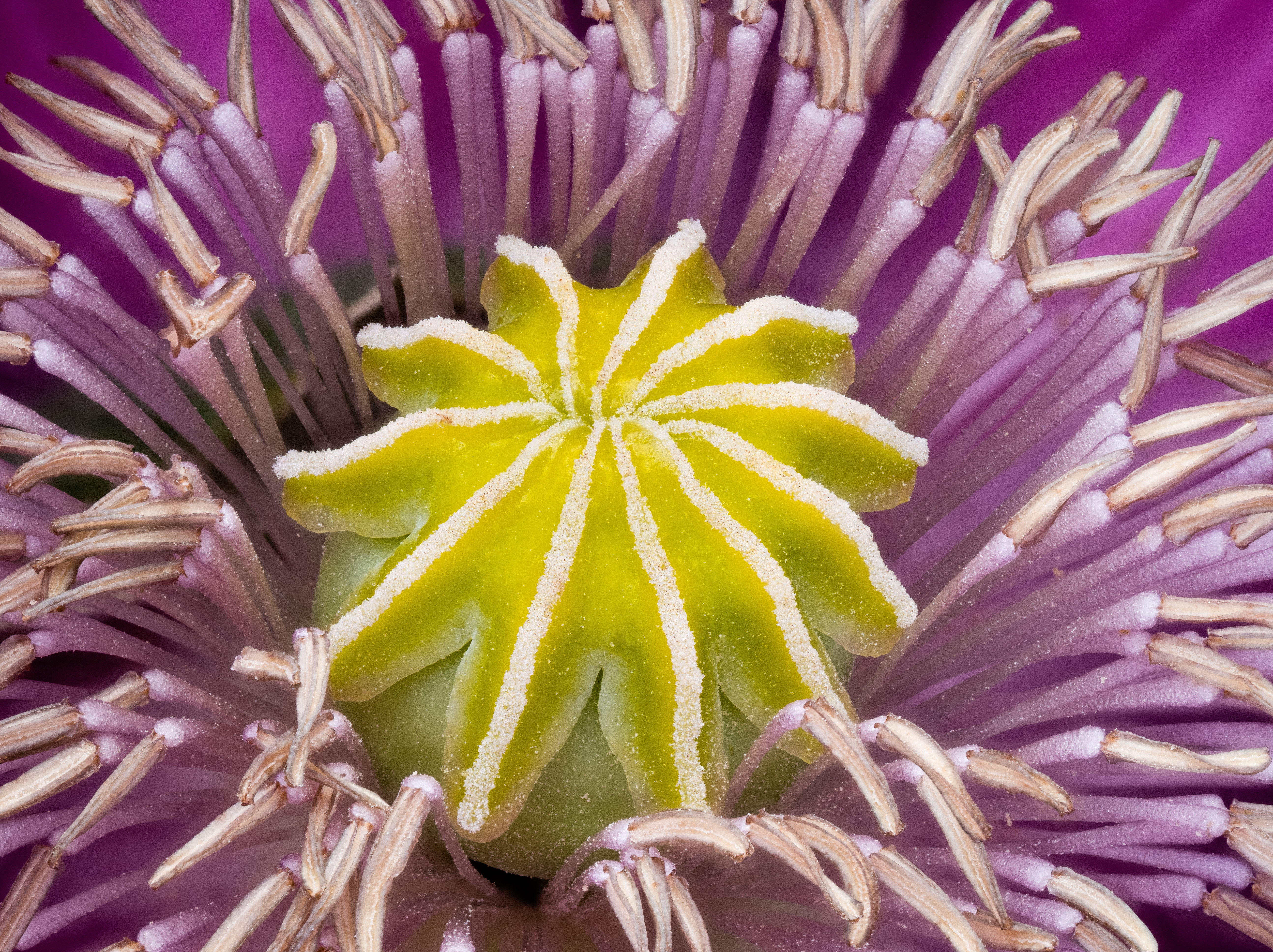 Centre of a opium poppy blossom. Stacked from 23 frames.